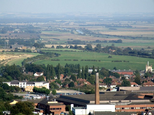 Lincoln County Hospital, Lincoln. This view from Lincoln Cathedral shows the hospital in the foreground 108480. To the left is Greetwell Road snaking off past Greetwell Hall Farm before turning sharp right past Greetwell Lodge 319420 with its gable end almost centre of frame. To the right is the Concrete Works, Allenby Trading Estate 136761 Out towards the top of the picture is the River Witham gently flowing to Boston. You can just see a footbridge, which crosses the river at Fiskerton.